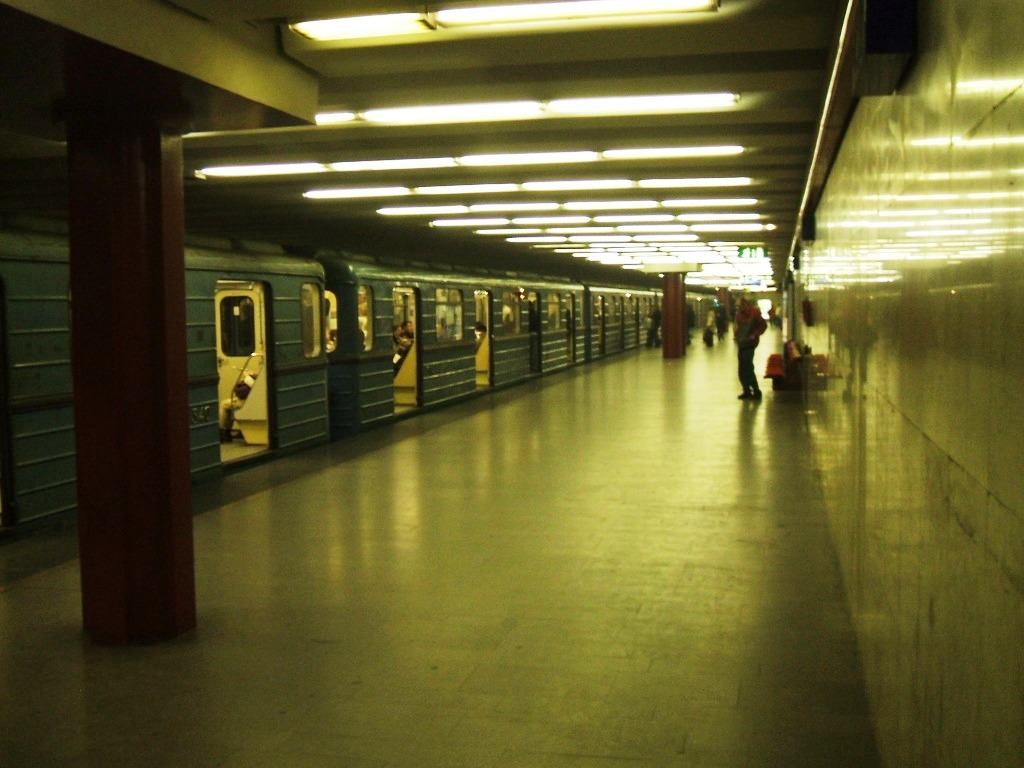 Árpád híd (Árpád Bridge) station of the Budapest Metro